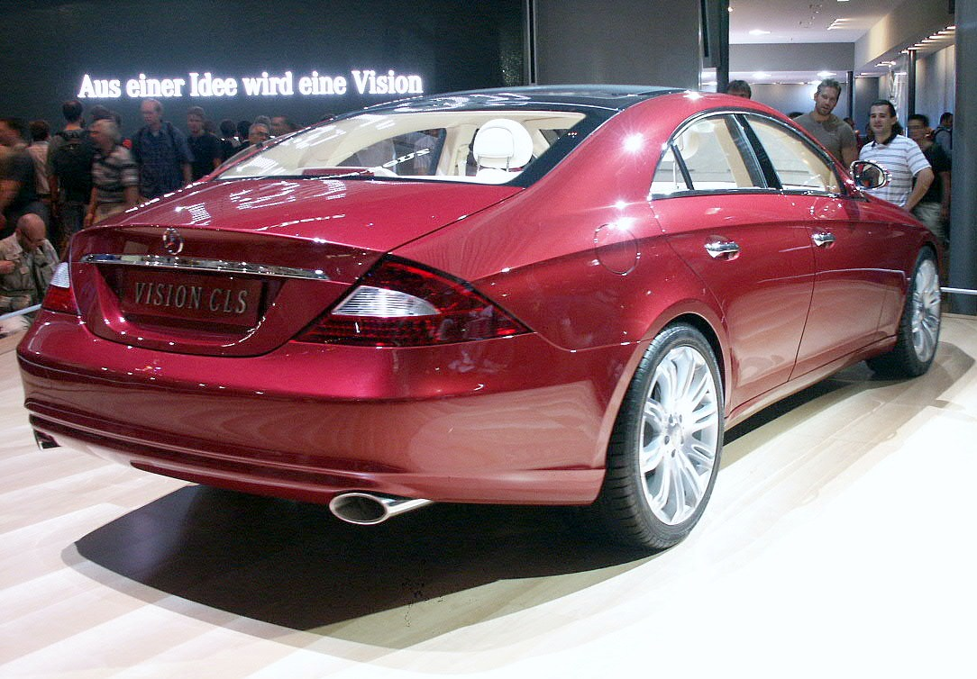 Mercedes Benz Vision CLS, back view